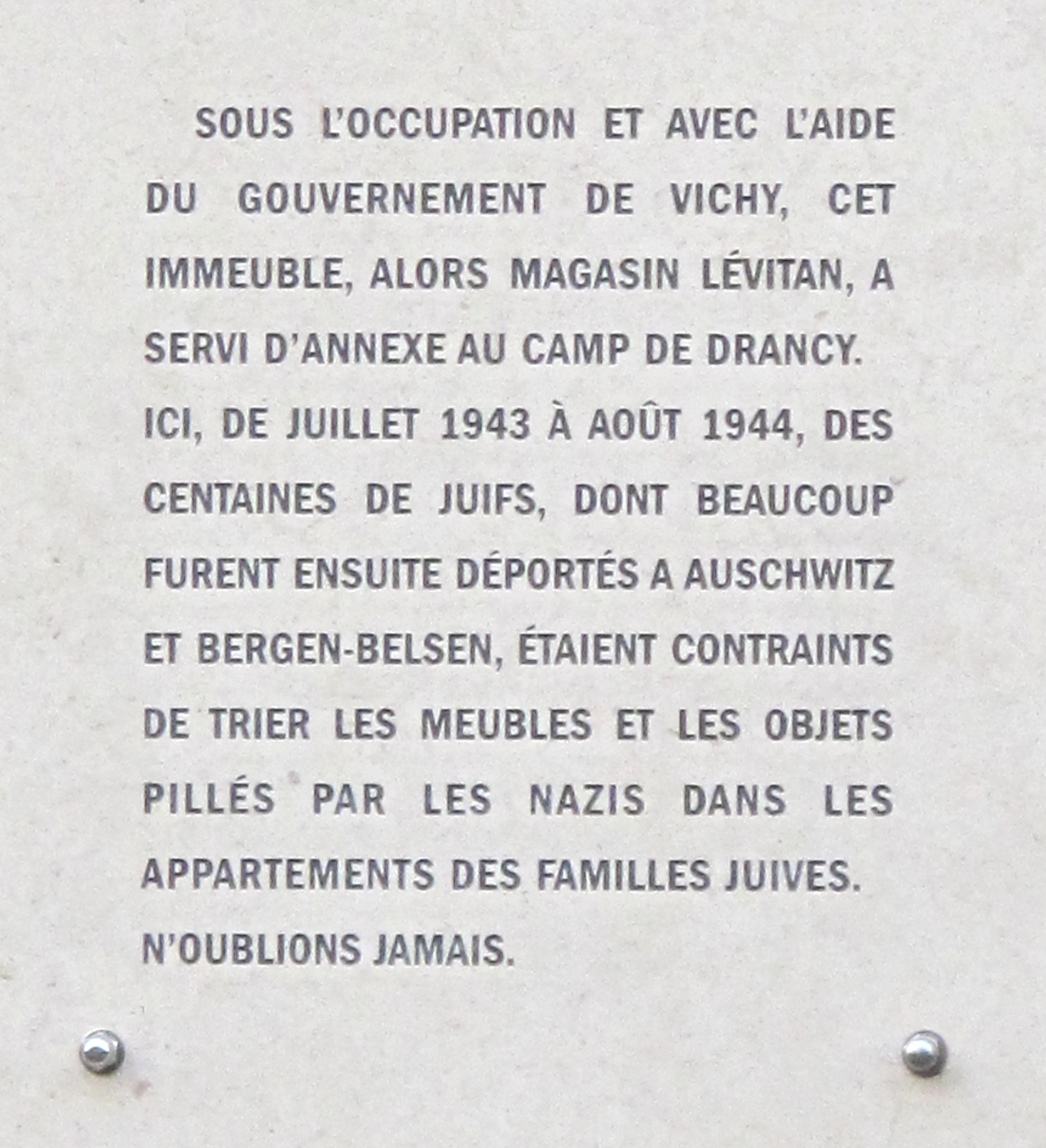 Plaque sur les anciens magasins de meubles Levitan : 85-87 rue du faubourg Saint-Martin, Paris 10th arrond. The text is : During the German occupation of Paris, and with the help of the French government of Vichy, this building, at that time furniture shop Levitan, was an annex of the deportation camp of Drancy. Here from july 1943 to august 1944, hundred of jewish people (whose many were afterwards deported to the camps of Auschwitz and Bergen-Belsen) were obliged to sort the furniture and the objects stolen by nazis in the flats of the jewish families. Never forget.